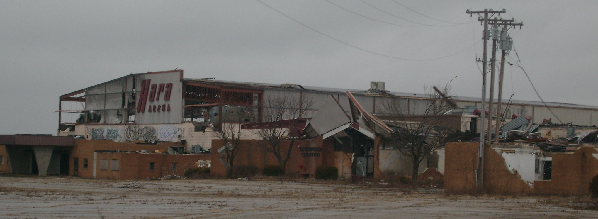 Hara Arena, damaged after the Tornado outbreak sequence of May 2019